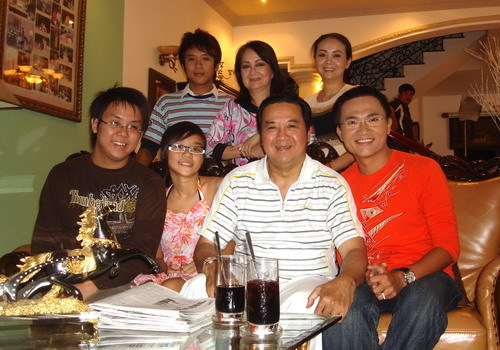 My picture